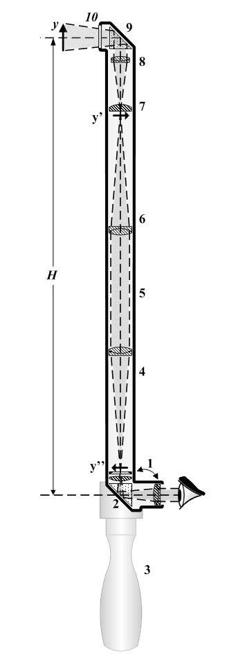 Portable handheld periscope cross section. 1 - Longer focal length Kellner eyepiece - what allows introduction of a prism between lenses. 2 - Diagonal prism. 3 - Handle 4 - 6 - Erecting lenses.[1] 5 - Periscope tube. 7 - Field lens. 8 - Objective lens. 9 - Head diagonal prism. 10 - Window. y - Distant object. y' - Real, inverted, diminished image. y" - Erect real image. H - Periscope optical height.